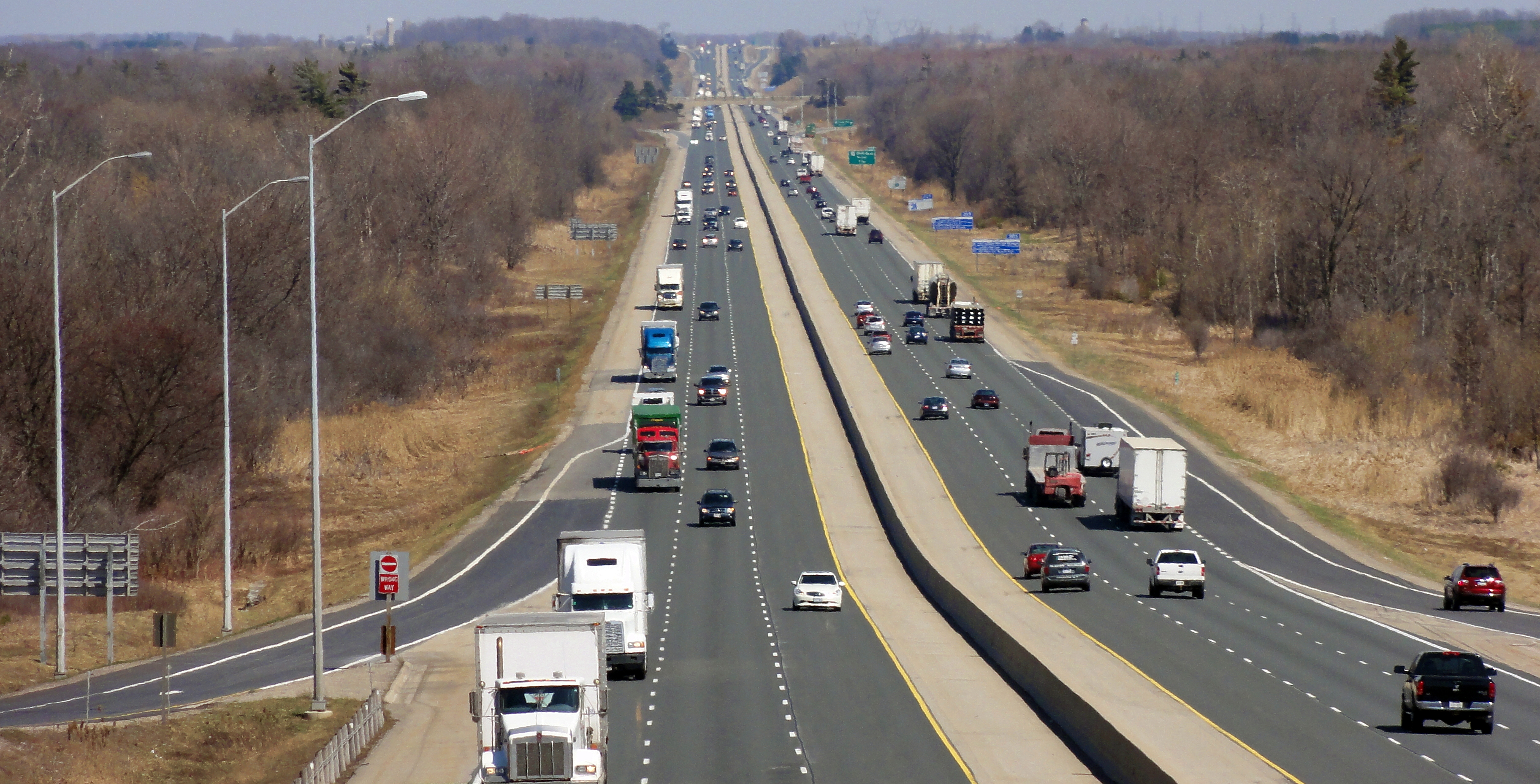 Highway 401 in Dorchester, Ontario.